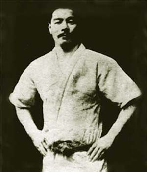 Japanese judoka ,Mitsuyo Maeda in Cuba.